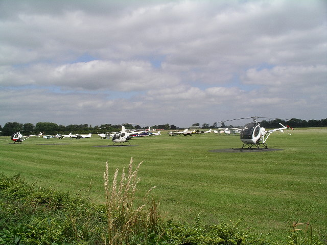 Weston Airport, Leixlip, Co. Kildare, Ireland